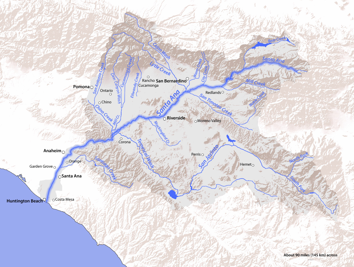 Map of the Santa Ana River drainage basin (watershed) in Orange, Riverside, and San Bernardino Counties, Southern California. From the San Bernardino, Santa Ana, and San Jacinto Mountains to the Pacific Ocean.